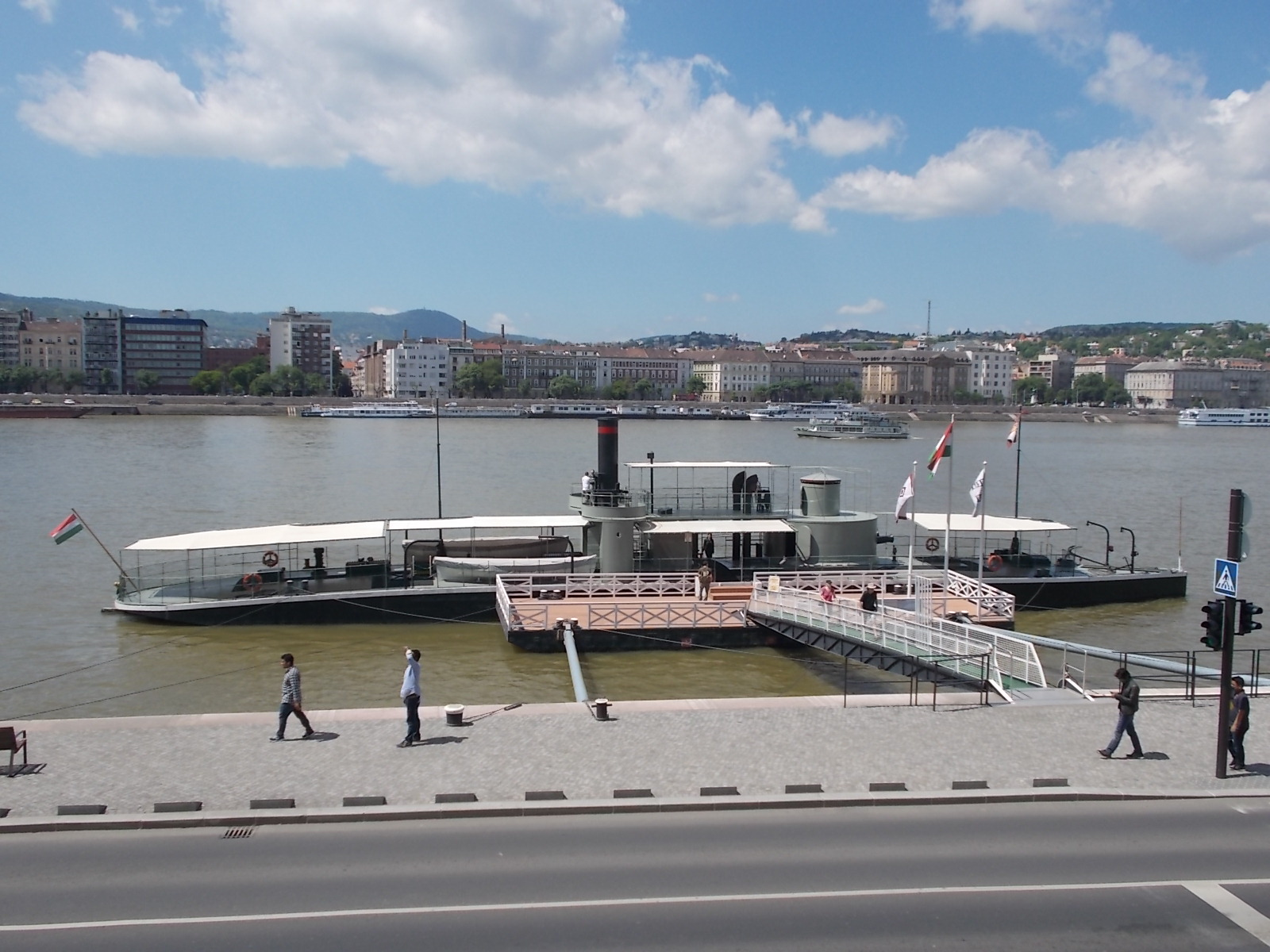 Lajta Monitor museum ship. A branch museum of the Museum and Institution of Military History in Budapest- idősebb Antall József Quay, Lipótváros neighbourhood, Belváros-Lipótváros district, Budapest, Hungary.